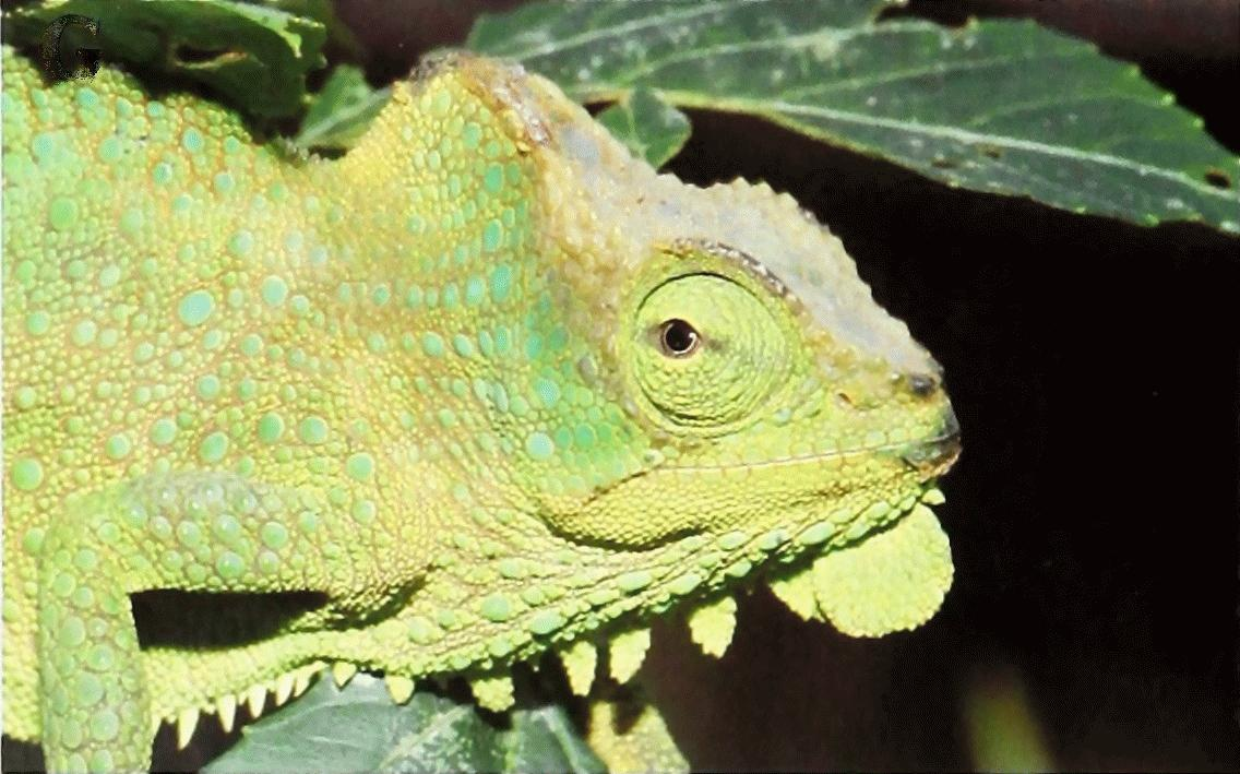 Bonn zoological bulletin - Trioceros eisentrauti (female) Cut-out from original (Bonn zoological bulletin (2010) (19771641514).jpg) shown below